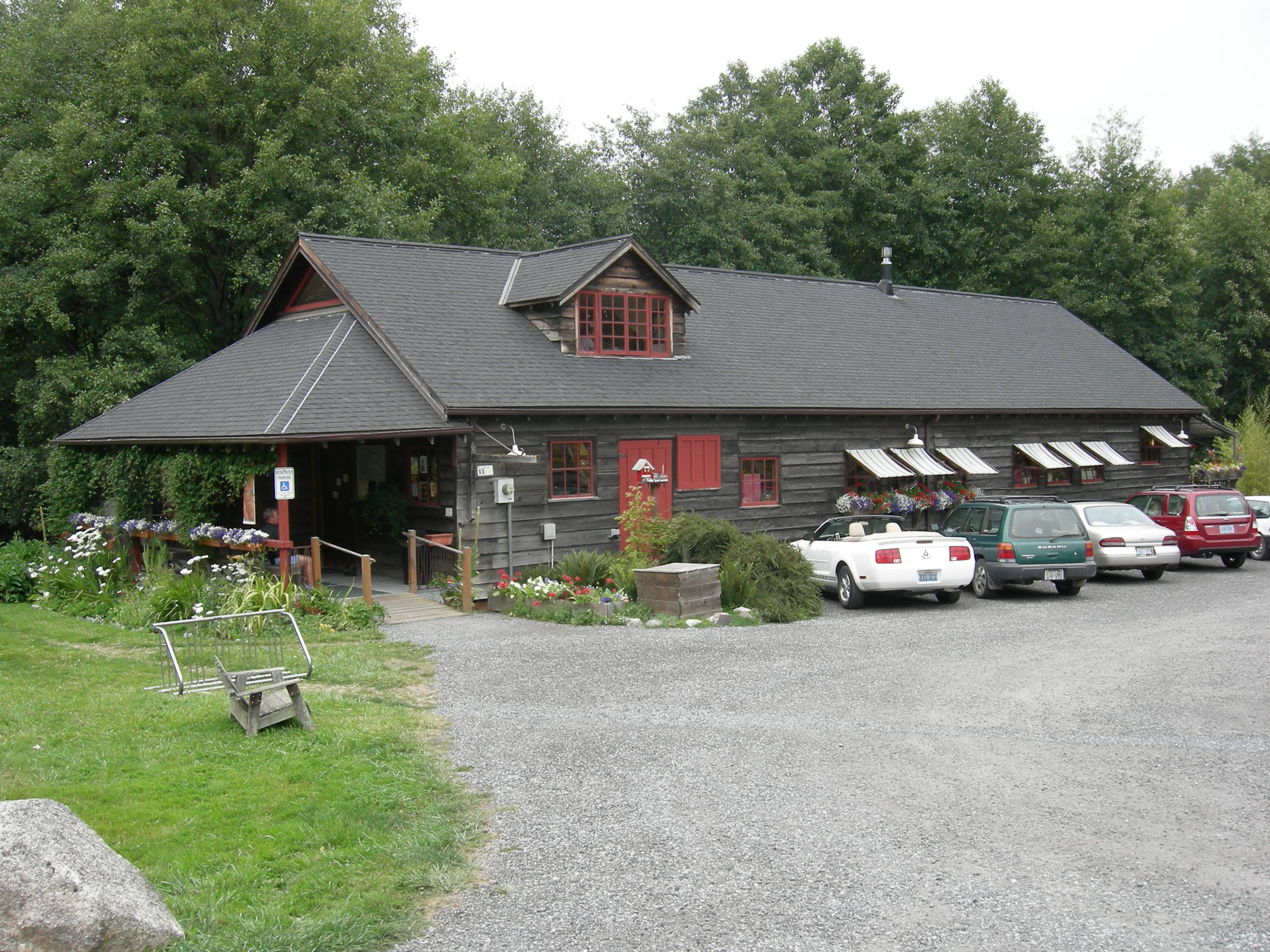 The Strawberry Barreling Plant, Olga, Orcas Island, Washington. The building was constructed for strawberry packing in 1938 and used for that purpose until 1944. For a time it was used as a storage building. It was first used for a restaurant (The Chambered Nautilus) in 1978; since 1981 is has housed a set of art galleries and a the Olga Cafe.